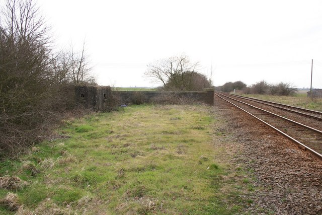 Pill Box Second World War pill box strategically sited where the railway line crosses Hobhole Drain and the drainside road.